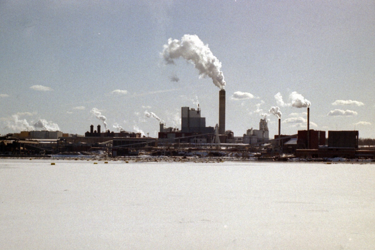 Kaukas Paper Mills in Lappeenranta, Finland. Seen from the ice-covered Lake Saimaa.